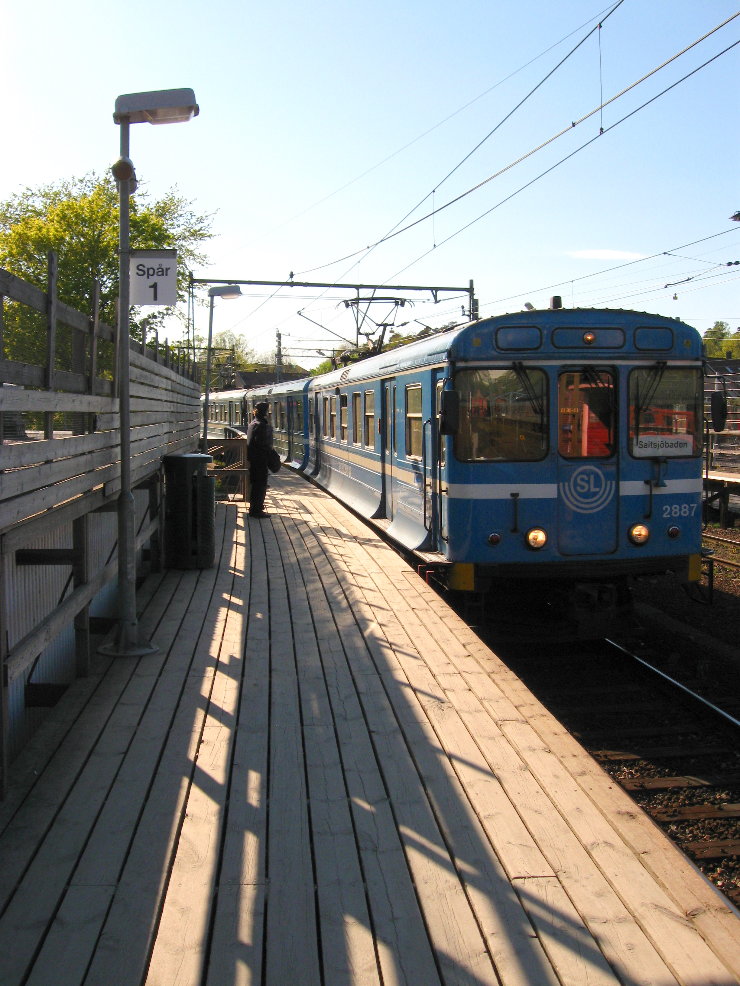 Train arriving at Station Neglinge along swedish railway Saltsjöbanan